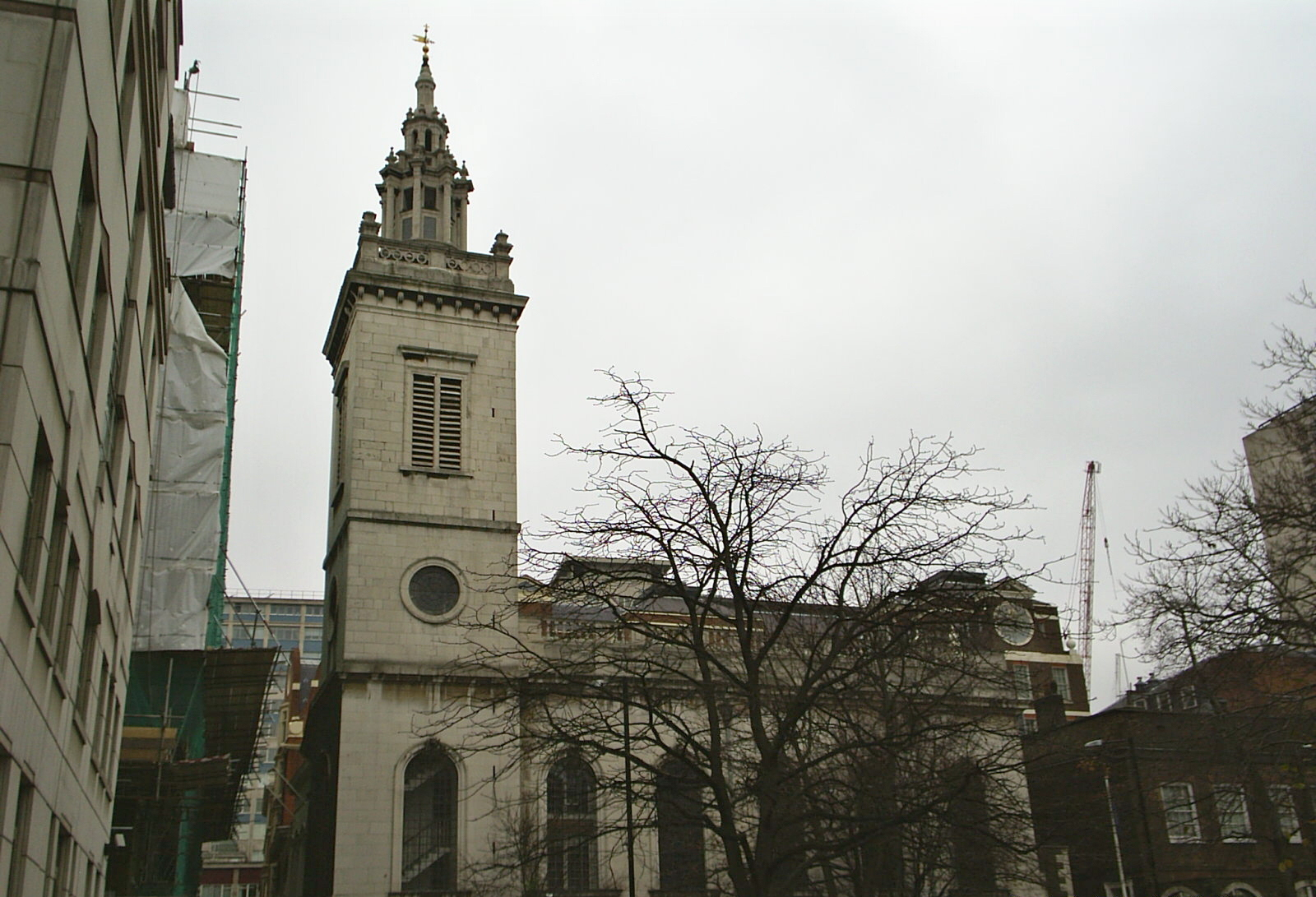 St. Michael Paternoster Royal